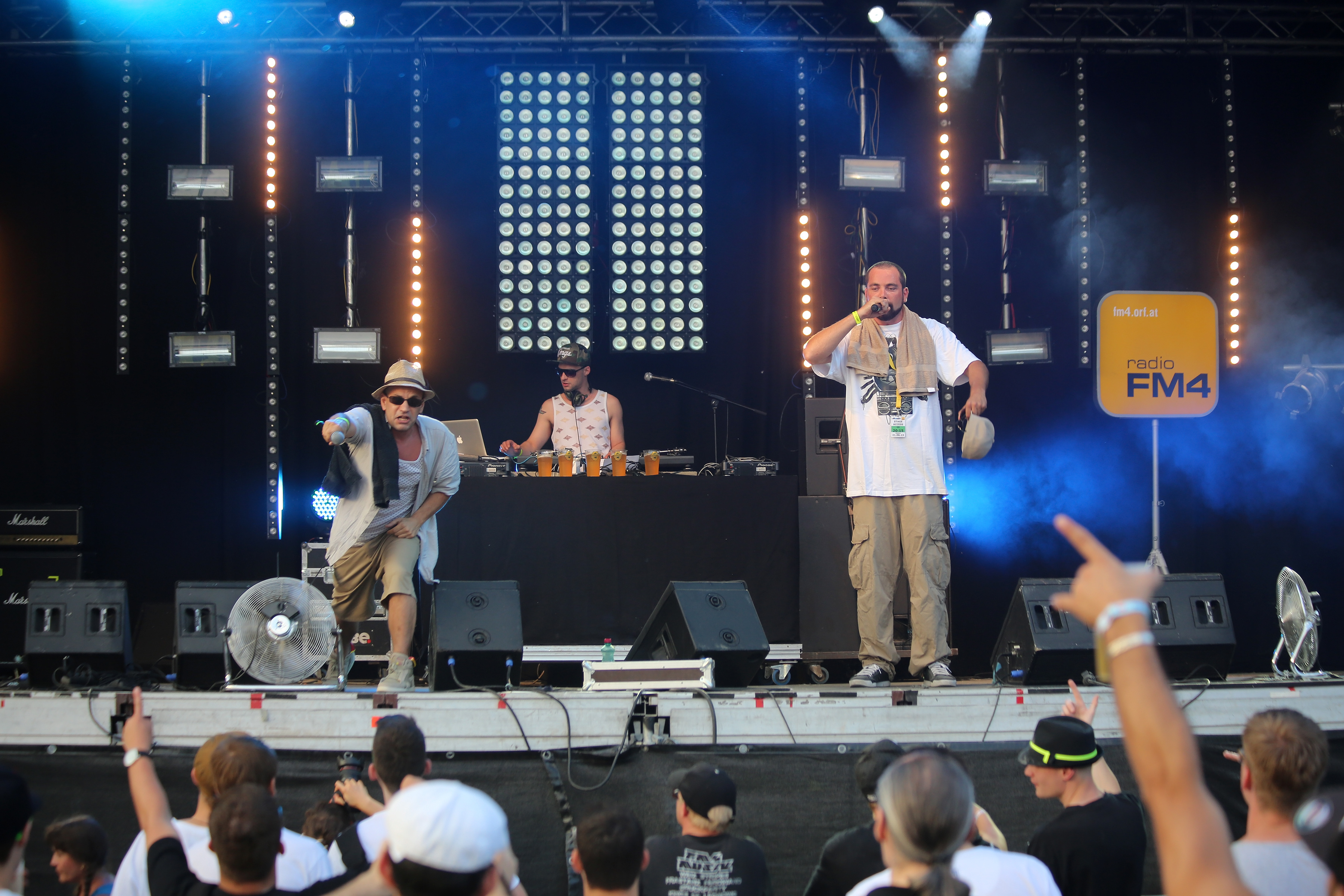 A.geh Wirklich? - Donauinselfest 2013 in Vienna, Austria